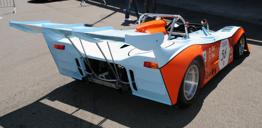 Rear view of 1973 Gulf-Mirage GR7, ex Jacky Ickx/Derek Bell. This is the first of five chassis built.